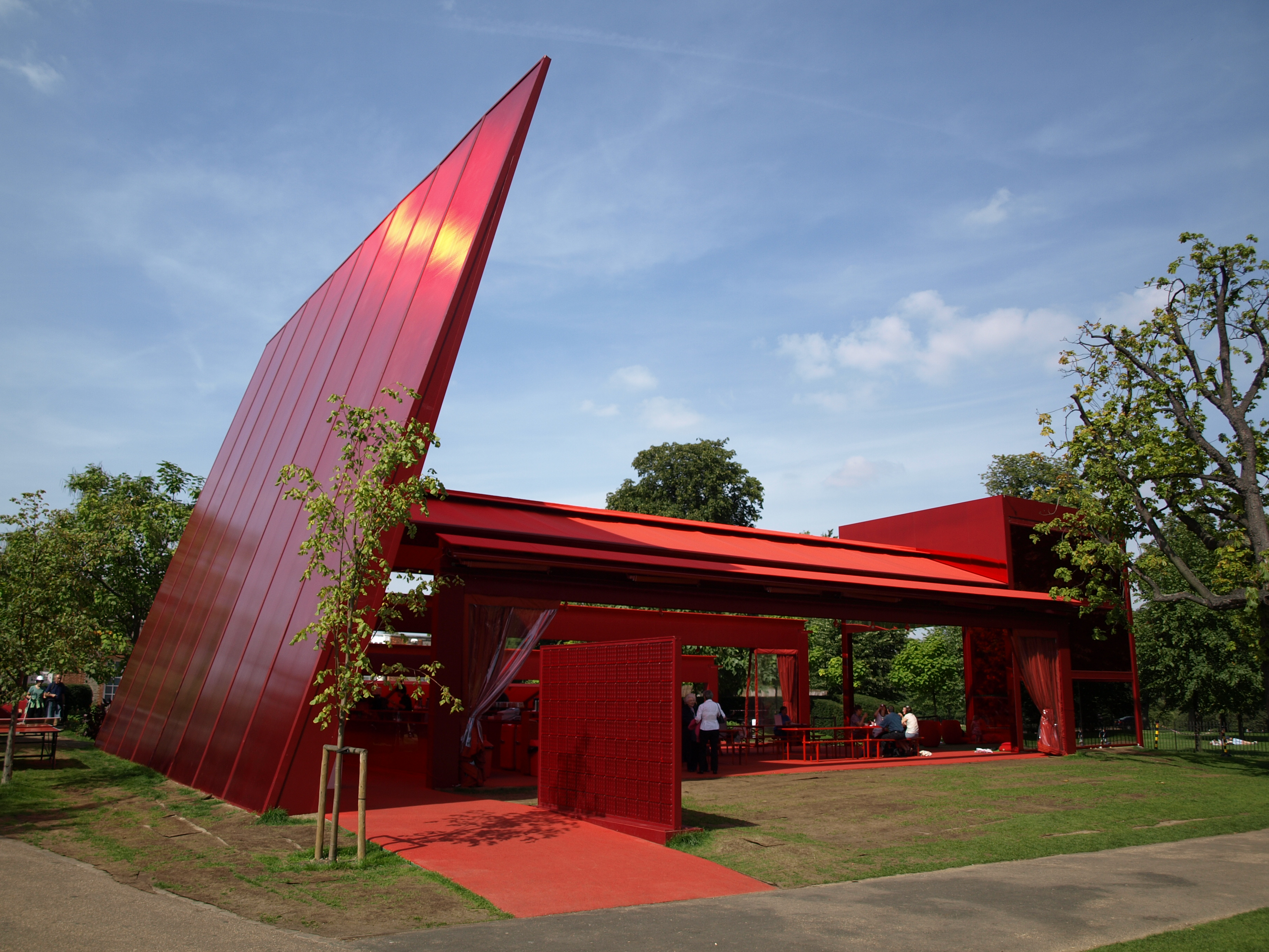 Serpentine Gallery pavilion 2010, Hyde Park, London